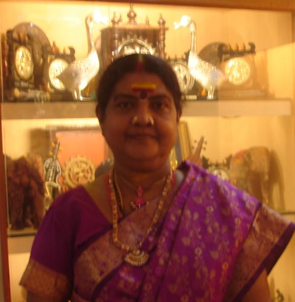 Dr. Vijayalakshmi Navaneethakrishnan Madurai 2009